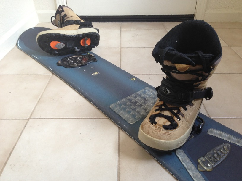 K2 Clicker step-in bindings on Avalanche snowboard.